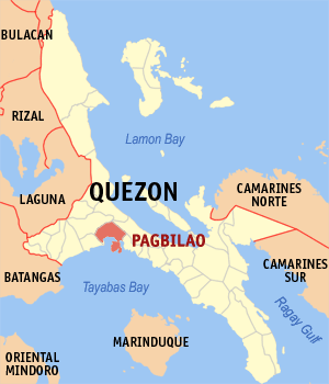 Map of Quezon showing the location of Pagbilao